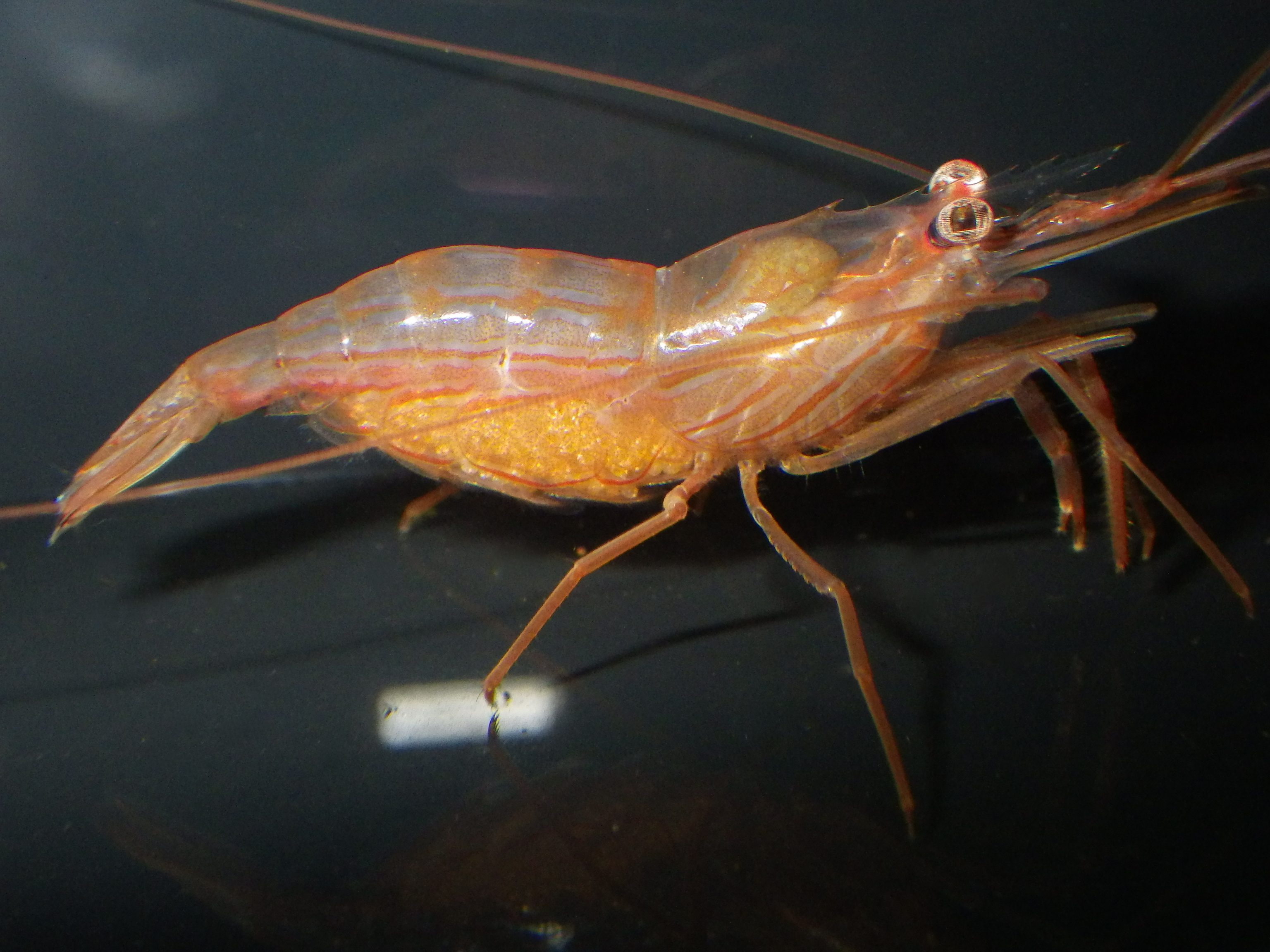 Lysmata boggessi carrying eggs